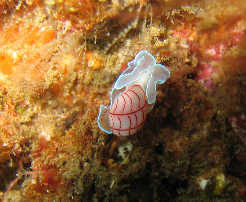 Red-lined Bubble Shell (Bullina lineata). Lady Jane Reef, South West Rocks, NSW